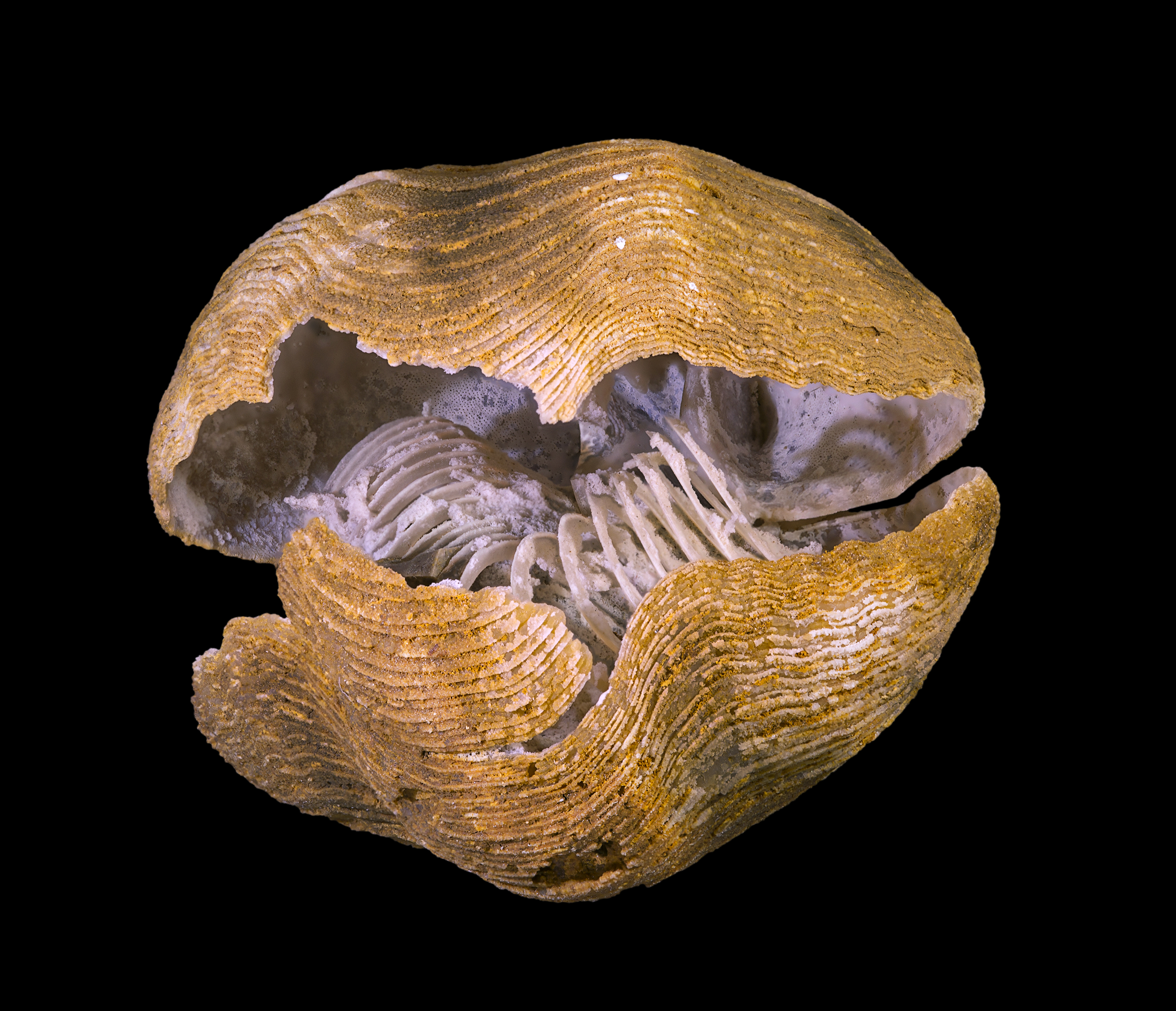 Liospiriferina rostrata (Brachiopod). Brachiopods filtered plankton, using a specialized organ: the lophophore. It is exceptional to be able to find silicified skeleton of this organ, visible in this specimen. Stage : Pliensbachian (189.6 ± 1.5 Ma and 183 ± 1.5 Ma (million years ago)) Lower Jurassic. Locality : France Size: 35x30 mm